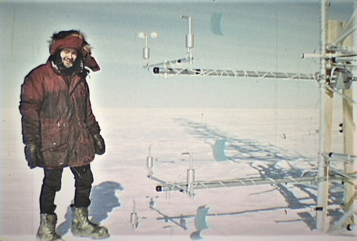 Photo of Plateau Station Micro Meteorology Tower. Photo was taken in Feb 1969. Depicts United States Antarctic Research Program (USARP) scientist Tom Frostman about to calibrate instrumentation on the tower. Photo was taken by myself with my 16mm Bolex H16. Jwrit (talk) 15:24, 3 October 2011 (UTC)